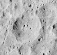 Prager, on the moon.